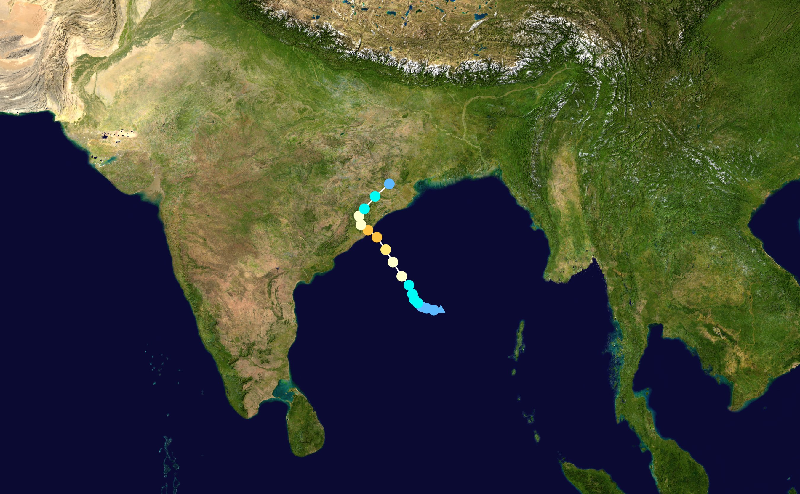 Track map of Very Severe Cyclonic Storm Titli of the 2018 North Indian Ocean cyclone season. The points show the location of the storm at 6-hour intervals. The colour represents the storm's maximum sustained wind speeds as classified in the Saffir–Simpson scale (see below), and the shape of the data points represent the nature of the storm, according to the legend below. Saffir–Simpson scale Tropical depression≤38 mph≤62 km/h Category 3111–129 mph178–208 km/h Tropical storm39–73 mph63–118 km/h Category 4130–156 mph209–251 km/h Category 174–95 mph119–153 km/h Category 5≥157 mph≥252 km/h Category 296–110 mph154–177 km/h Unknown Storm type Tropical cyclone Subtropical cyclone Extratropical cyclone / Remnant low / Tropical disturbance / Monsoon depression